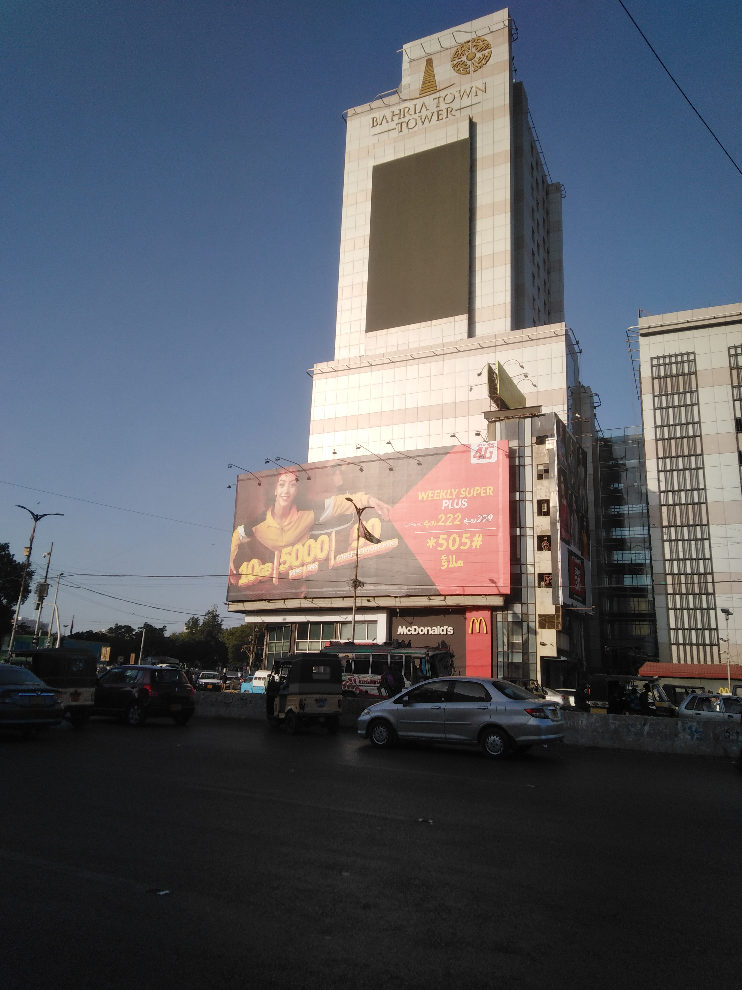 It is captured by me.